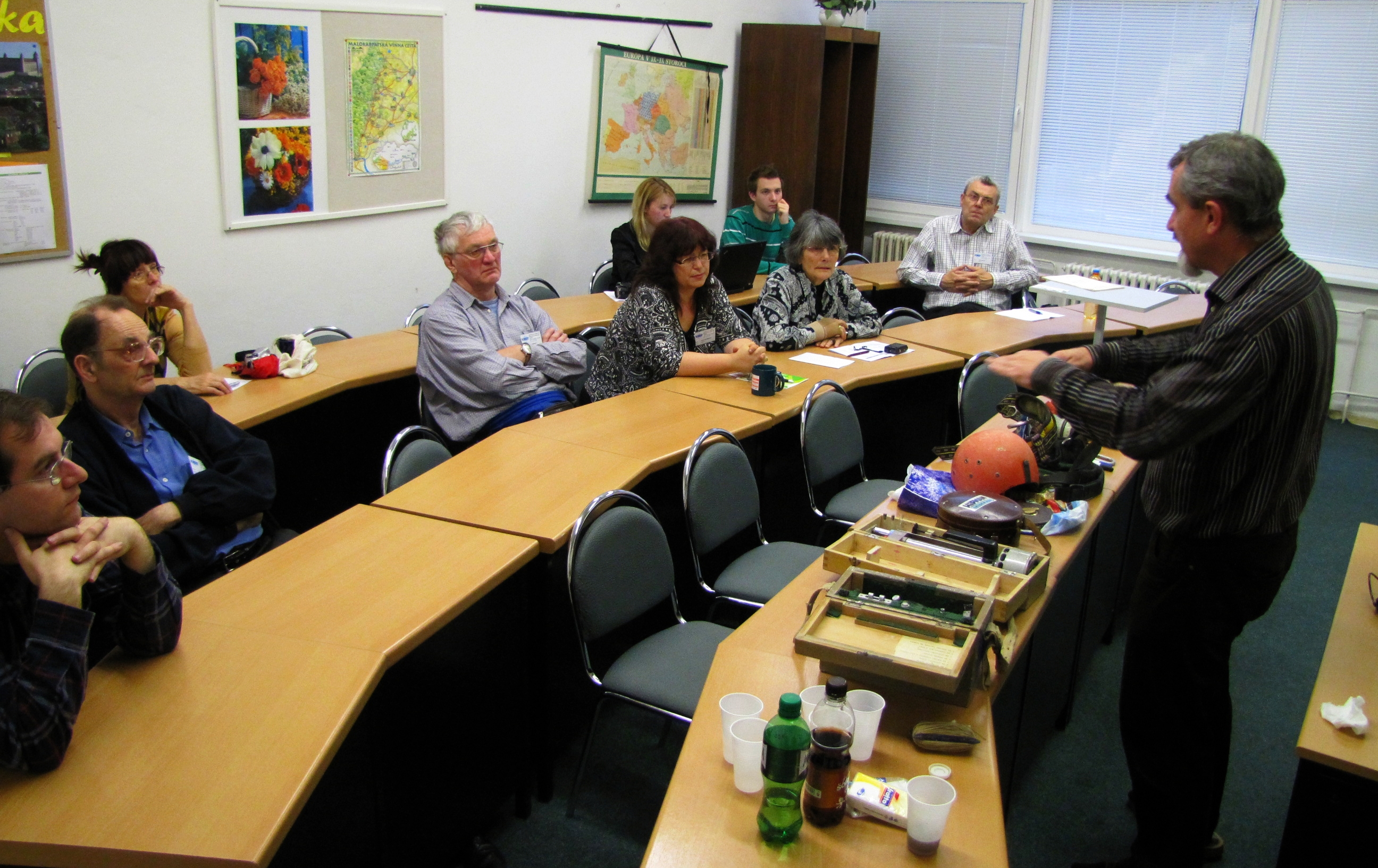 Lecture (in Esperanto) on speleology by Ján Vajs (Slovakia) during the KAEST 2010 conference organized by E@I in Modra (Slovakia).